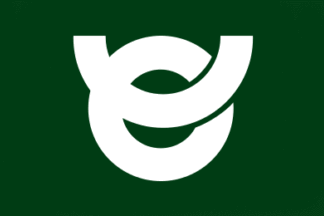 Flag of Hichiso Gifu